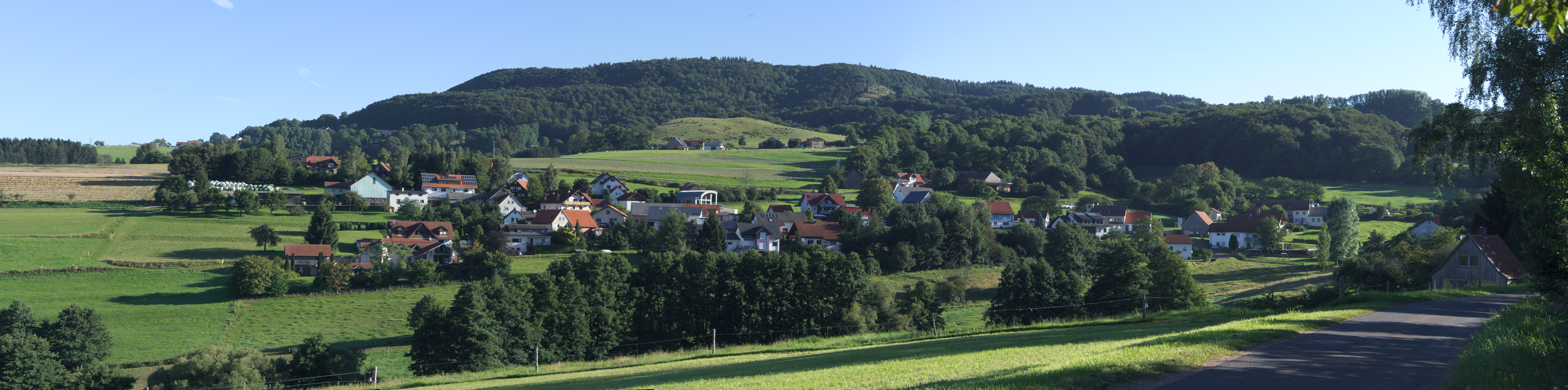 Panoramic view of Sachen, Gersfeld, Hesse, Germany